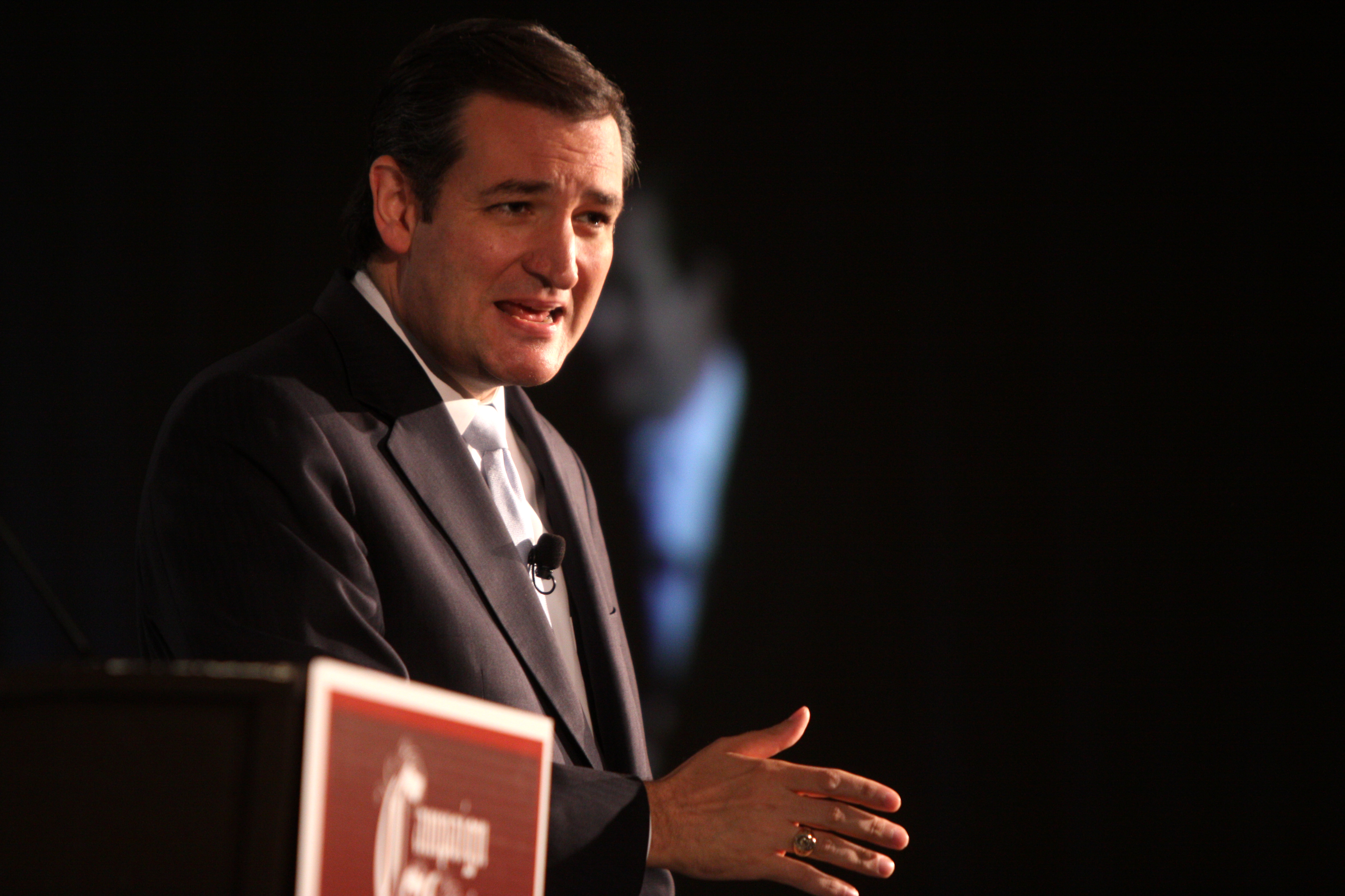 U.S. Senate candidate Ted Cruz of Texas speaking at the 2012 Liberty Political Action Conference in Chantilly, Virginia.